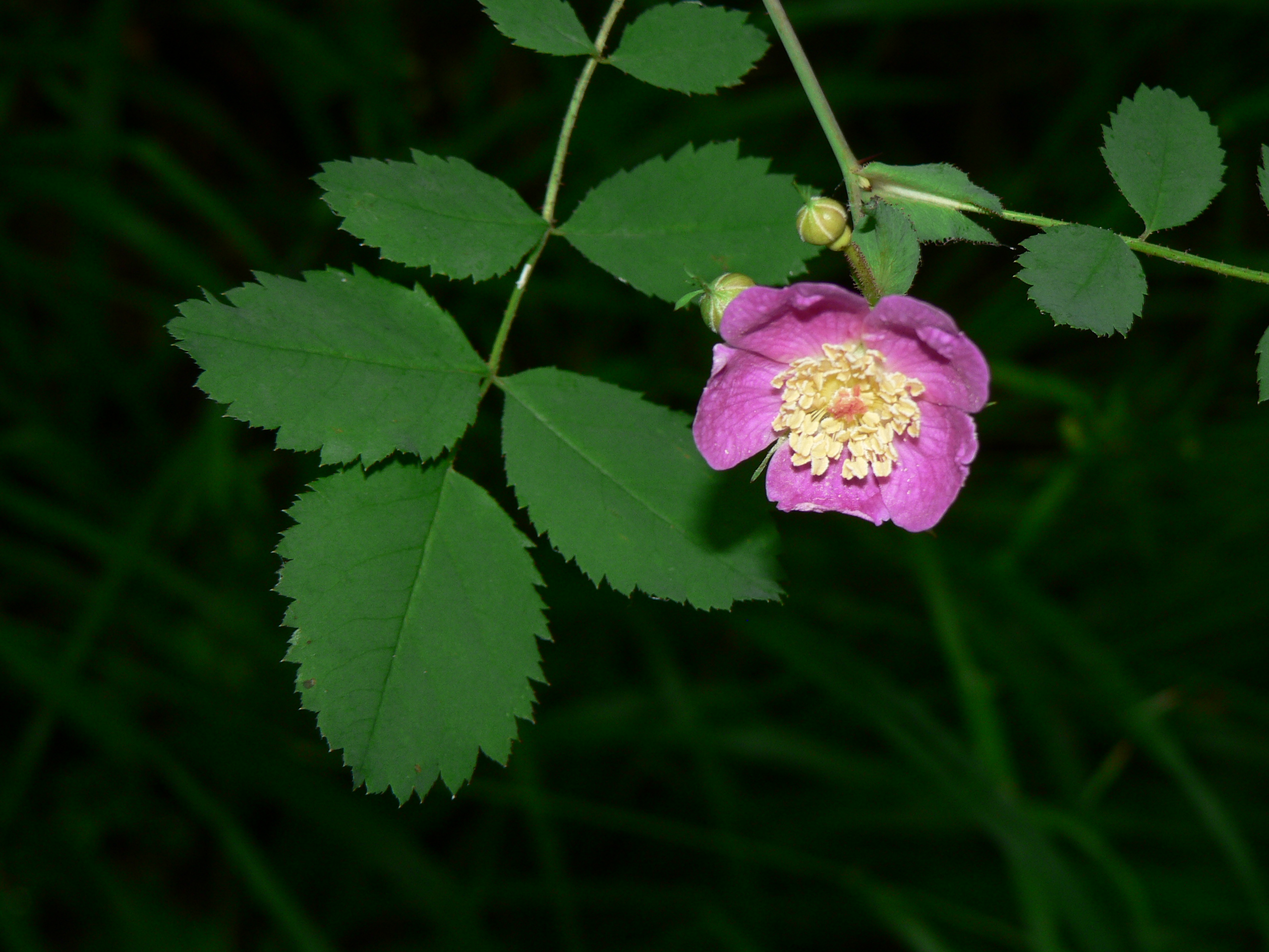 Dwarf Rose, Wood Rose or Baldhip Rose